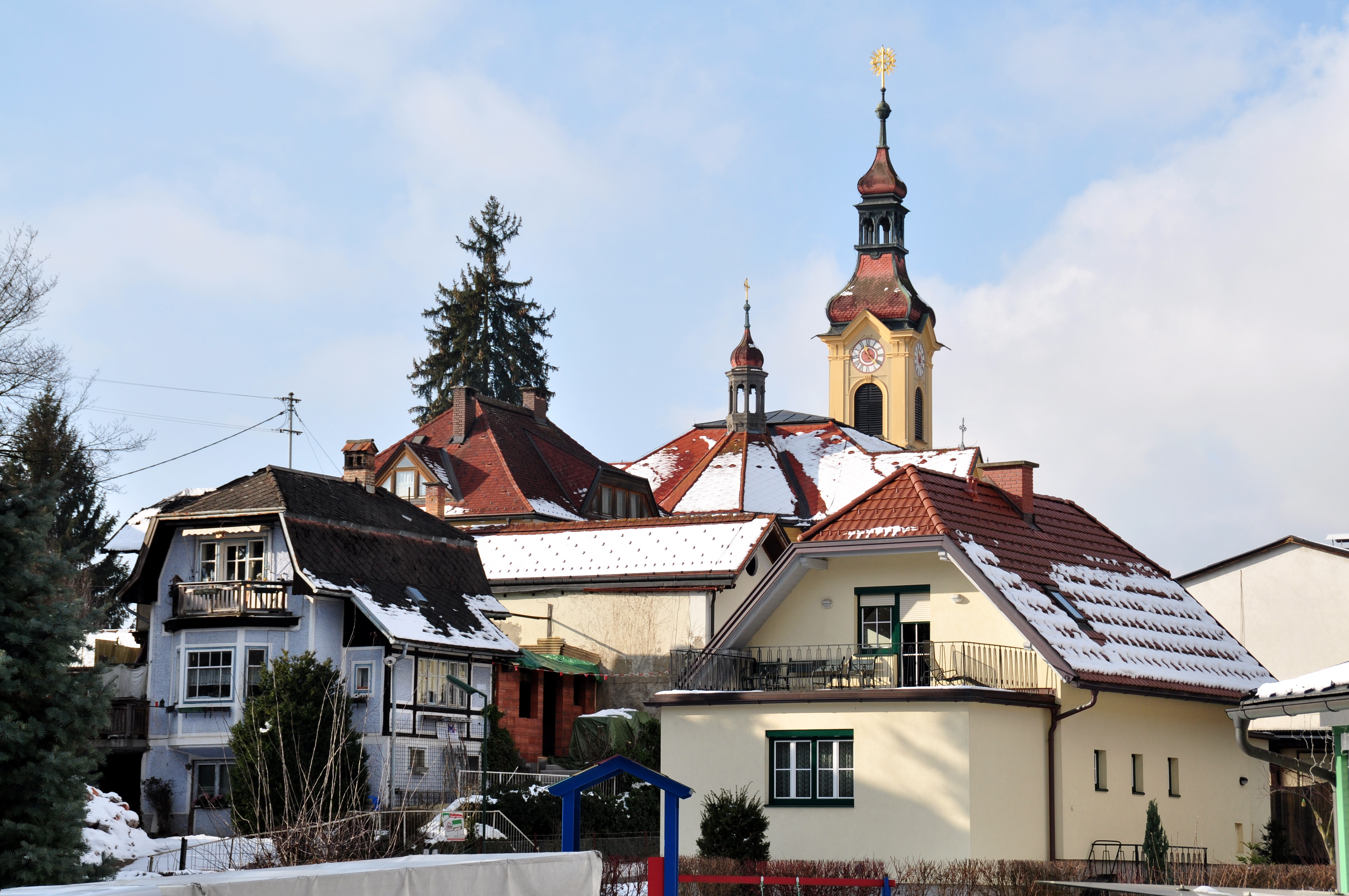 Residential houses and the parish church on the Moosburger Street in Poertschach on the Lake Woerth, district Klagenfurt-Land, Carinthia, Austria